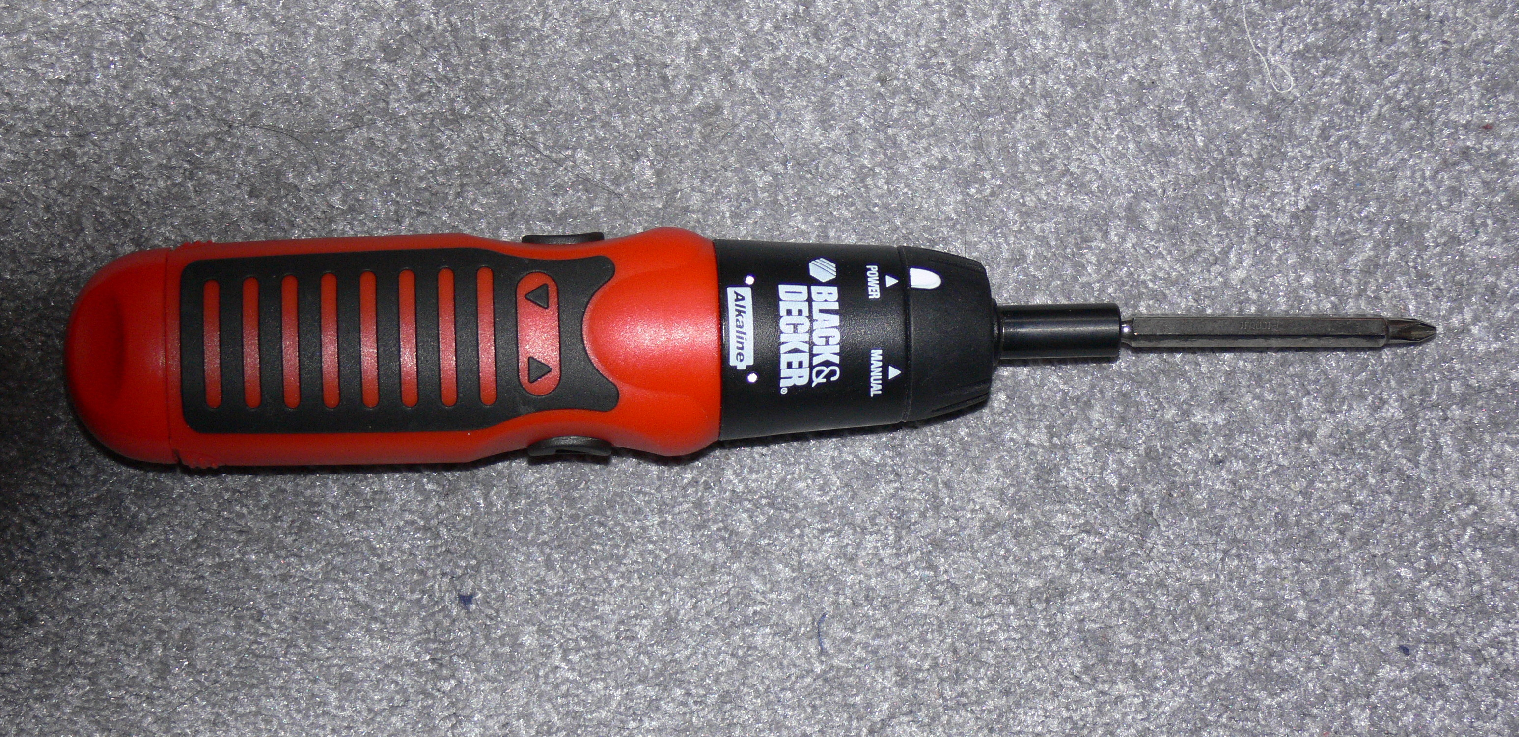 battery powered drill